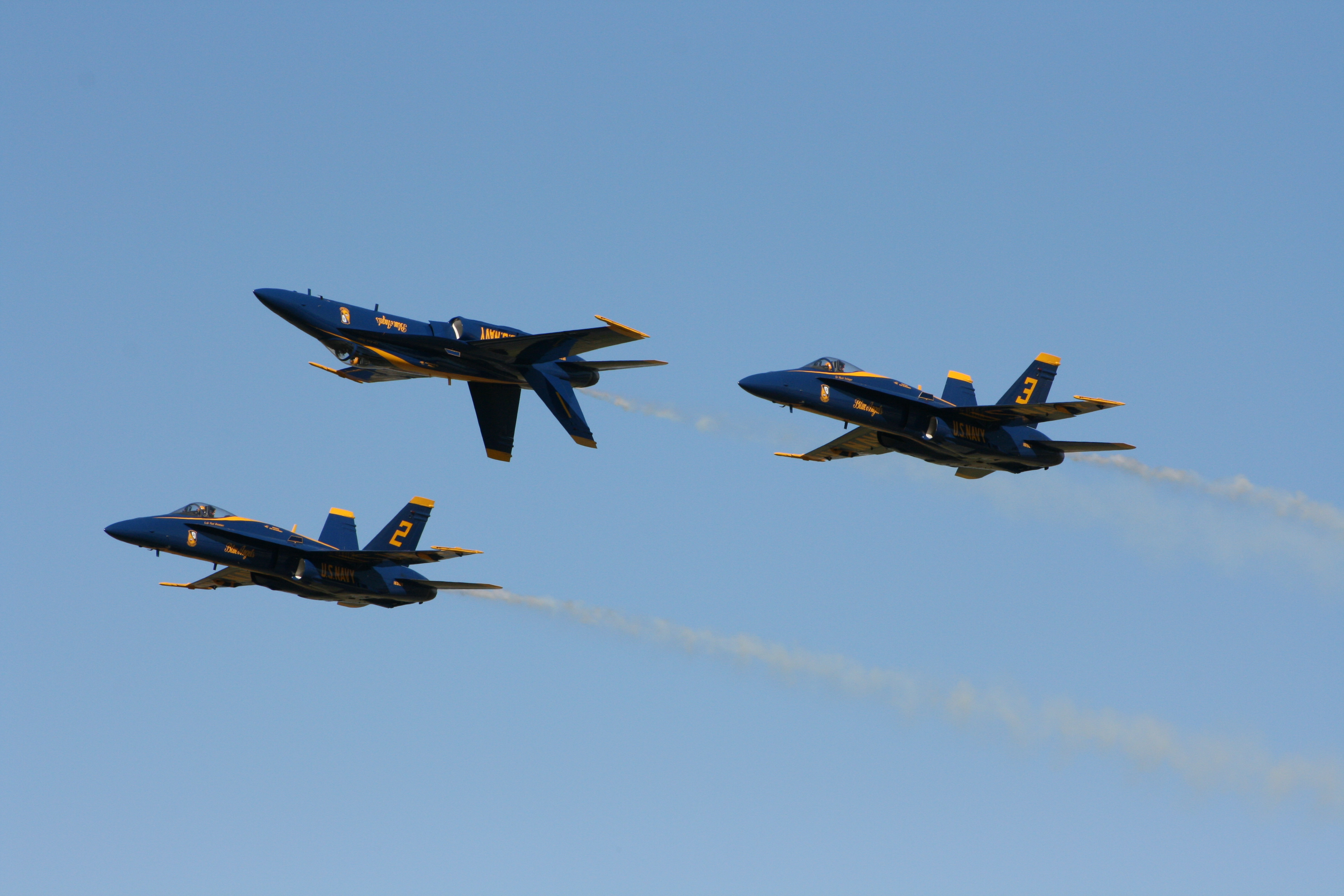 Photo of the US Navy Blue Angels during the Air Show at the Naval Air Station in Jacksonville, Florida, USA.